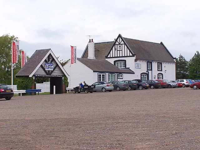 Donington Grand Prix Collection. The entrance to the world's largest collection of Grand Prix racing cars.